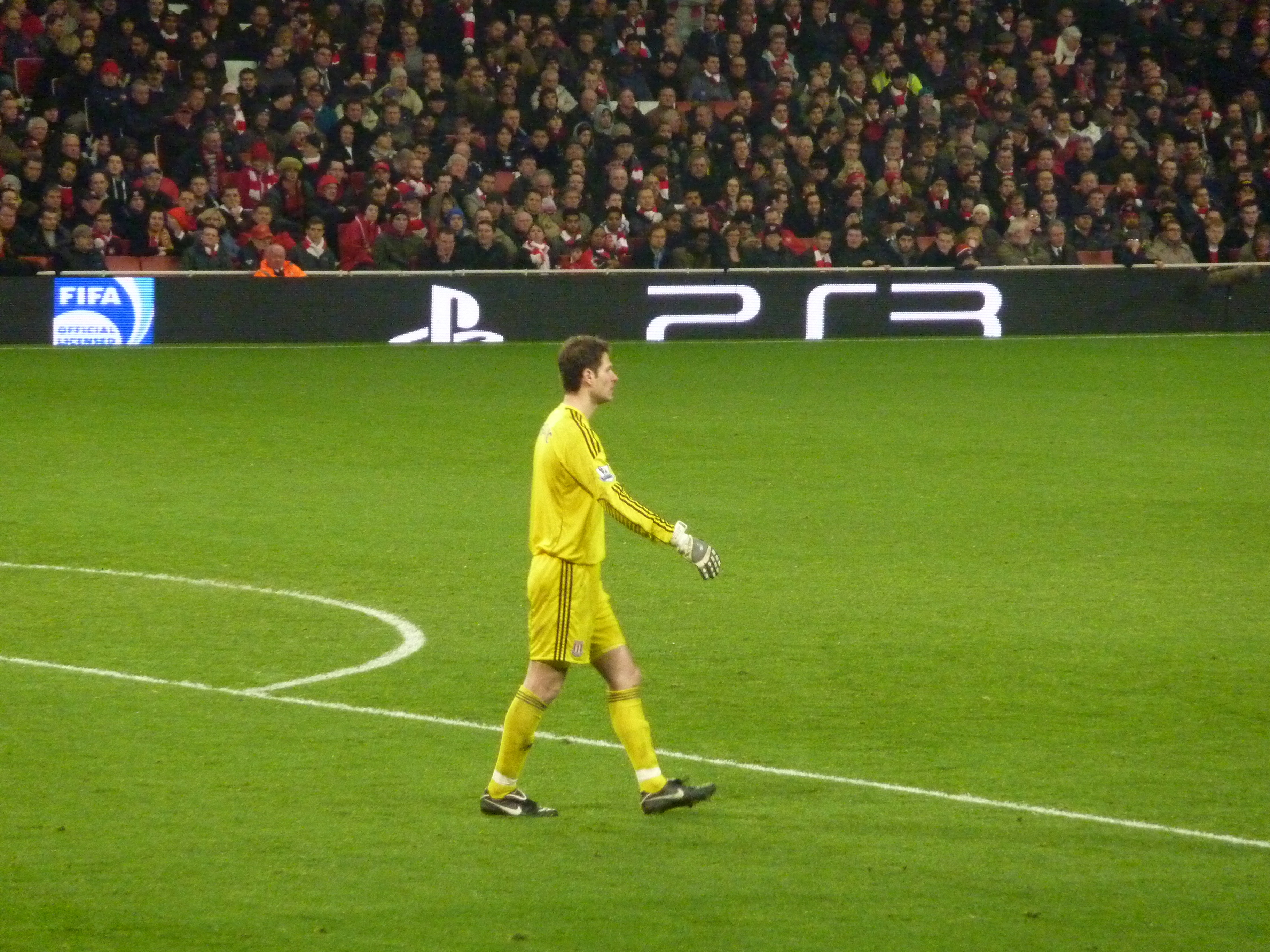 Begovic playing against Arsenal in 2011